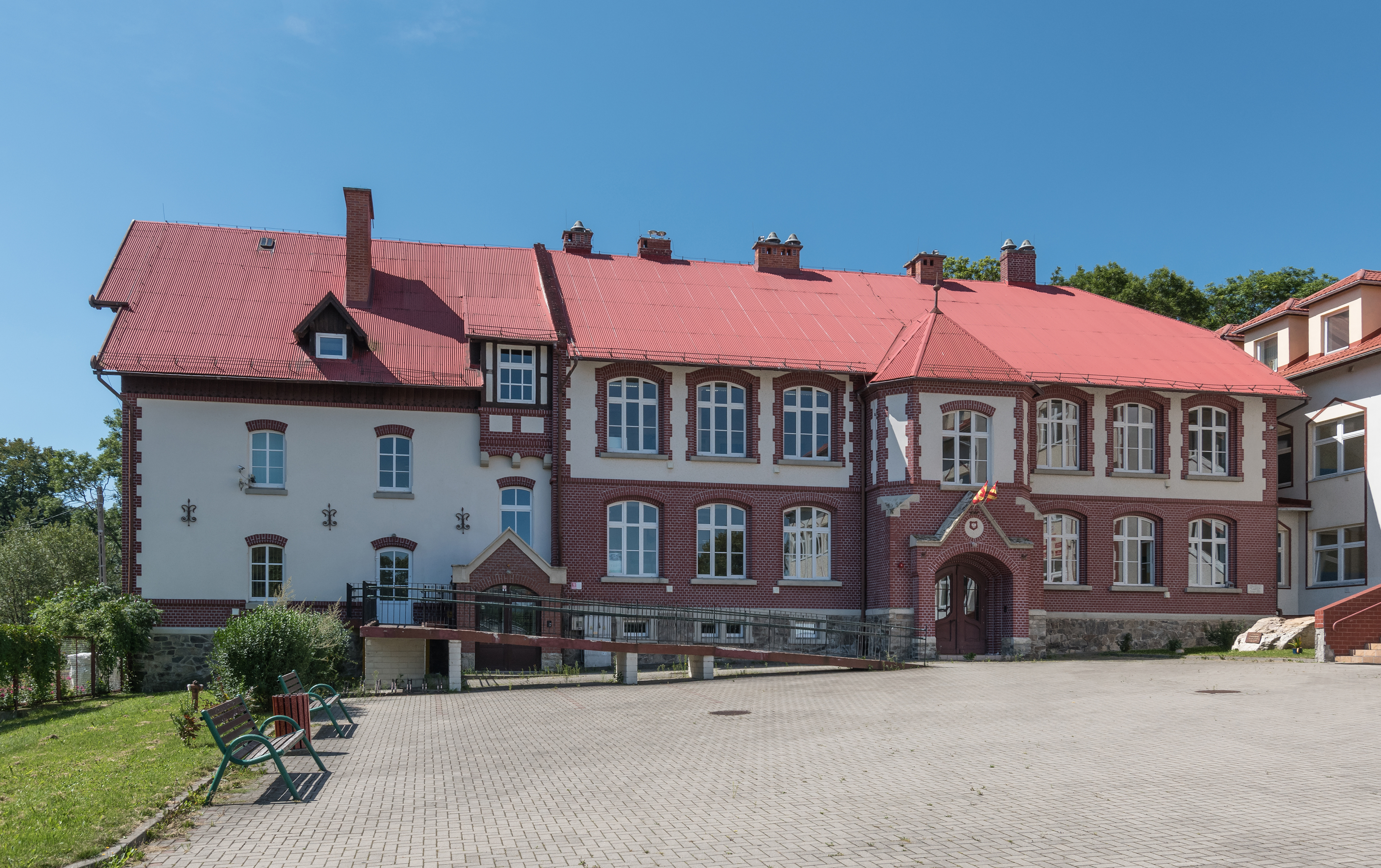 Marianne of the Netherlands Gymnasium in Stronie Śląskie